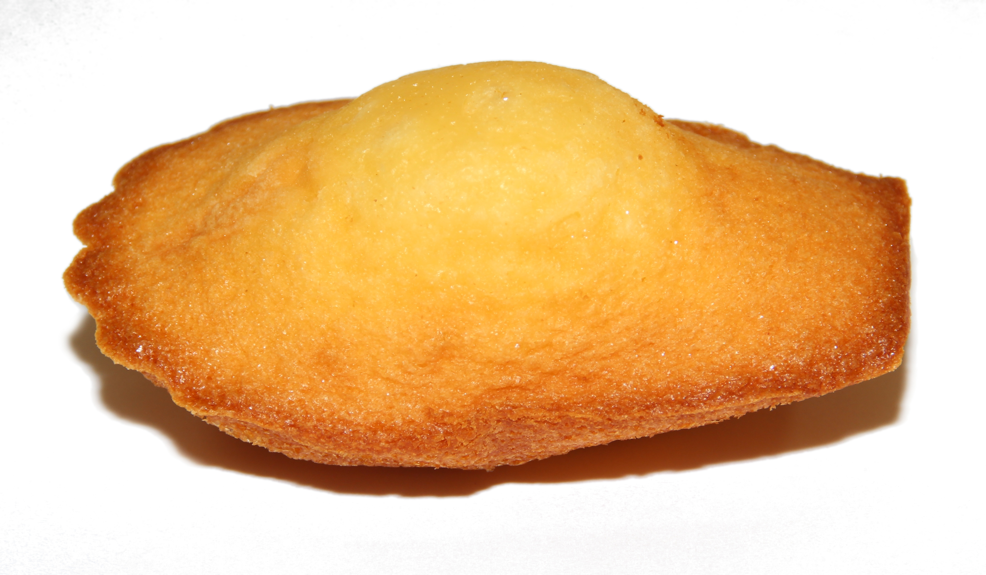 Madeleine of St Michel brand on white background.